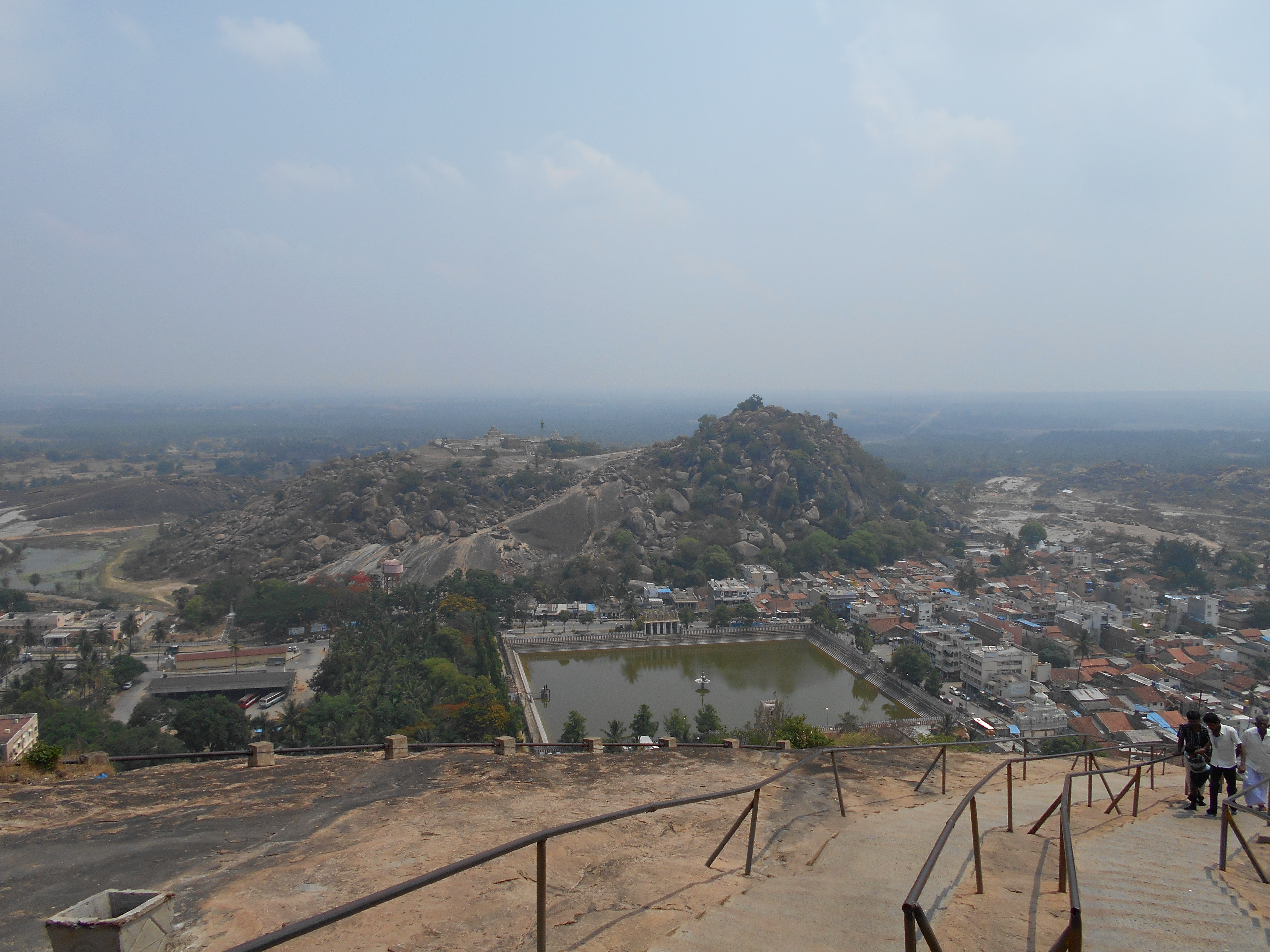 Latest Photograph of the White Pond at Shravanabelagola